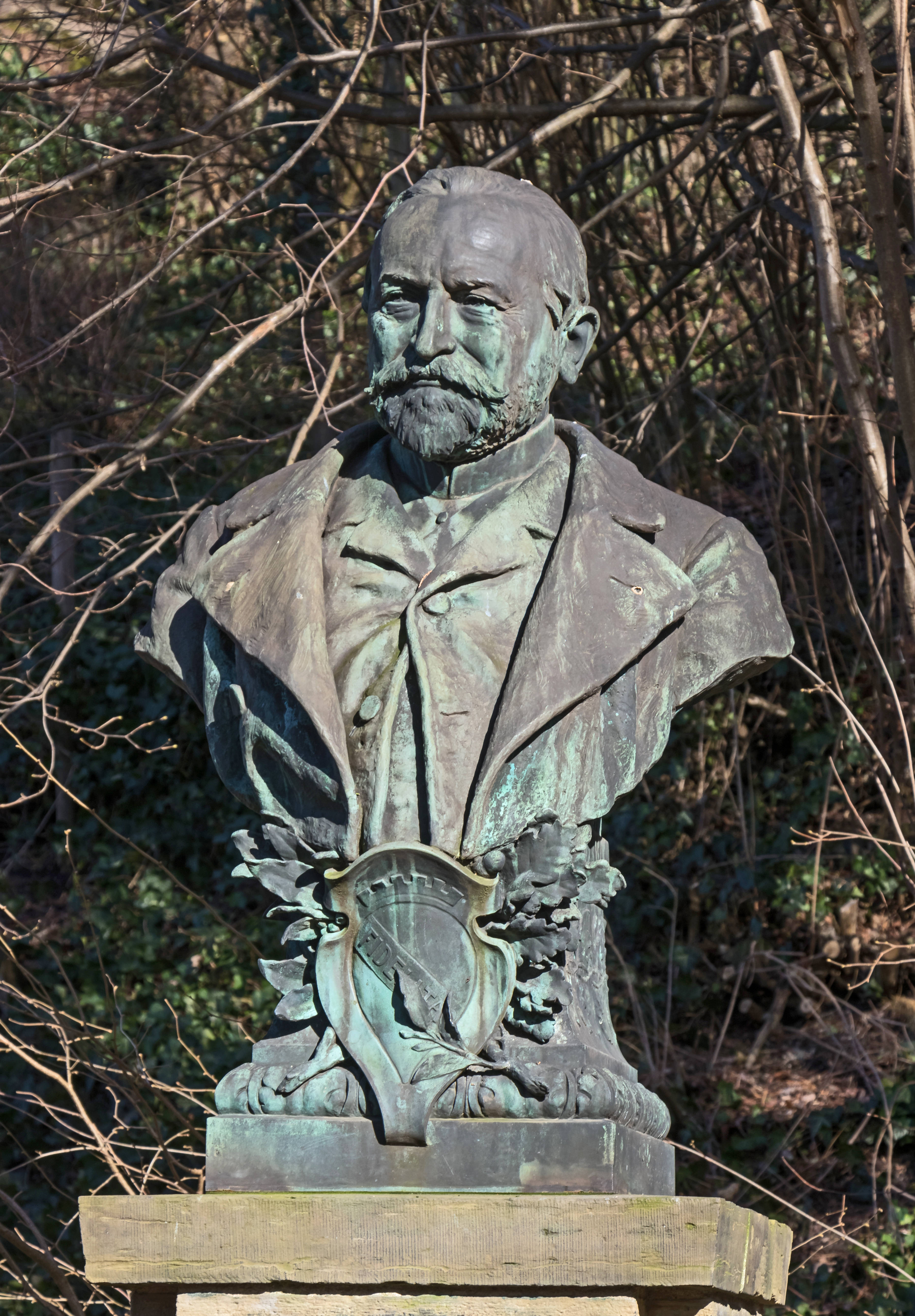 Bust of Wilhelm Florentin Lauter (1821 - 1892), Senior mayor of Karlsruhe 1870 - 1892 by the sculptor Hermann Volz; Wilhelm Florentin Lauter memorial, Lauterberg, Karlsruhe Zoo, Karlsruhe, Germany.